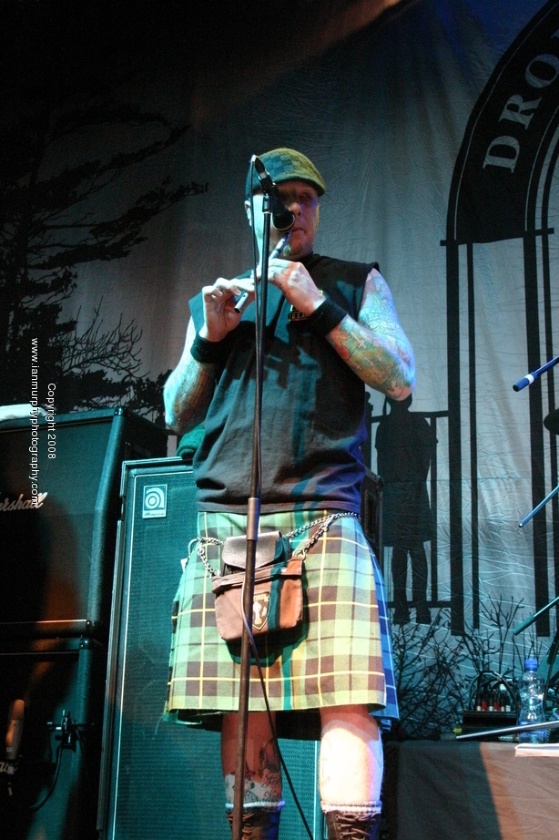 Dropkick Murphy's in Tripod. 31st January 2008